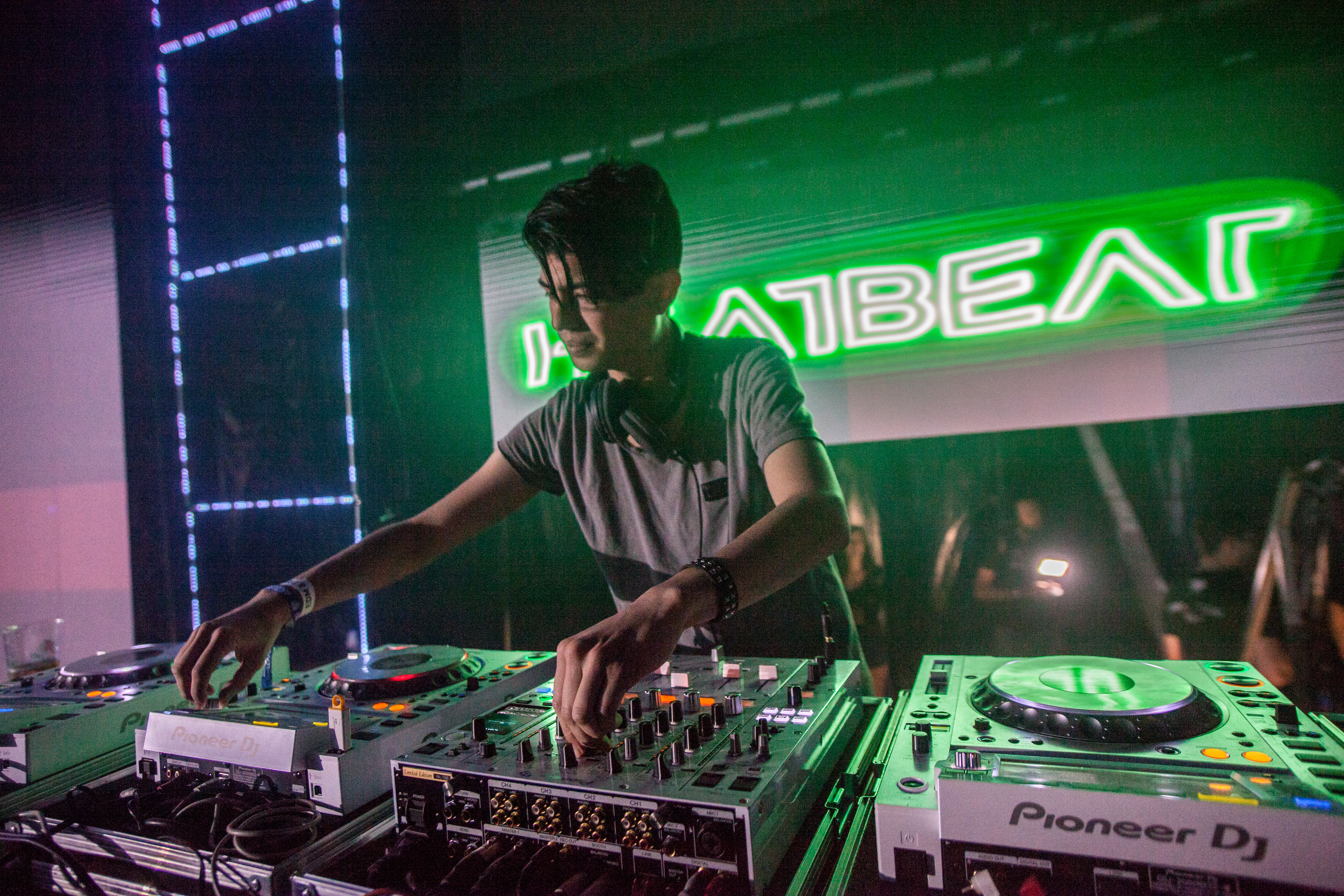 Matias Chavez, the only member of the music group Heabeat performing at electronic music festival Beats for Love 2019 (Ostrava, Czechia) on 5 July 2019